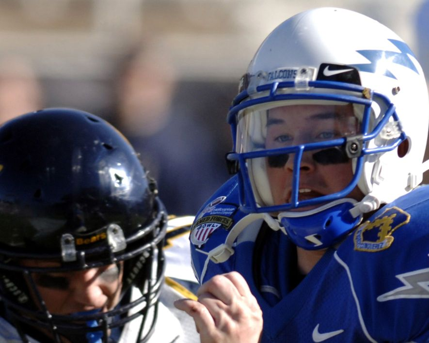 U.S. Air Force Academy senior quarterback Shaun Carney(right) and California Golden Bears linebacker Justin Moye(left), wearing Eye blacks.